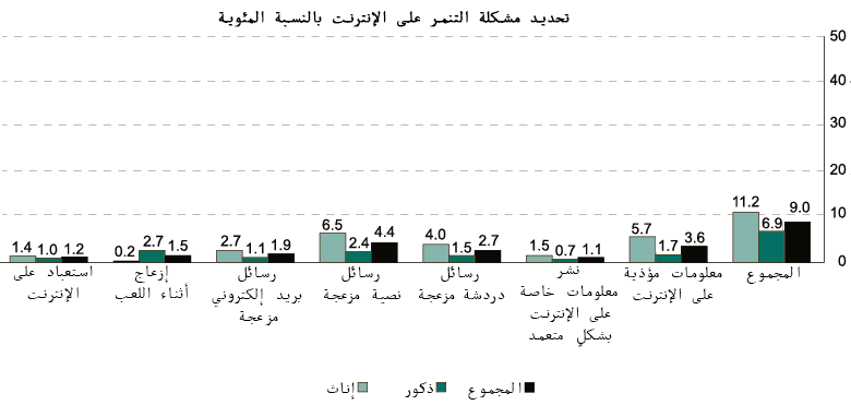 Percentage of students ages 12–18 who reported being cyber-bullied anywhere during the school year, by selected cyber-bullying problems and sex: 2011 ! Interpret data with caution. The coefficient of variation (CV) for this estimate is between 30 and 50 percent. NOTE: "Cyber-bullying" includes students who responded that another student had posted hurtful information about them on the Internet; purpose- fully shared private information about them on the Internet; harassed them via instant messaging; harassed them via Short Message Service (SMS) text messaging; harassed them via e-mail; harassed them while gaming; or excluded them online. Cyber-bullying types do not sum to total because students could have experienced more than one type of cyber-bullying. SOURCE: U.S. Department of Justice, Bureau of Justice Statistics, School Crime Supplement (SCS) to the National Crime Victimization Survey, 2011.